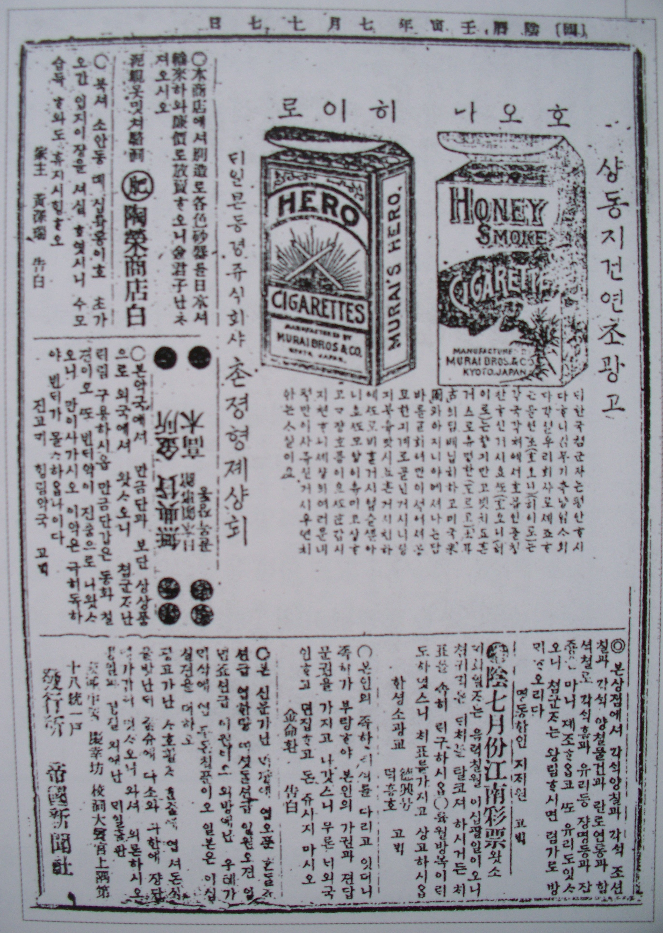 Cigarette advertisement appearing in the Korean newspaper Cheguk Sinmun (1902)